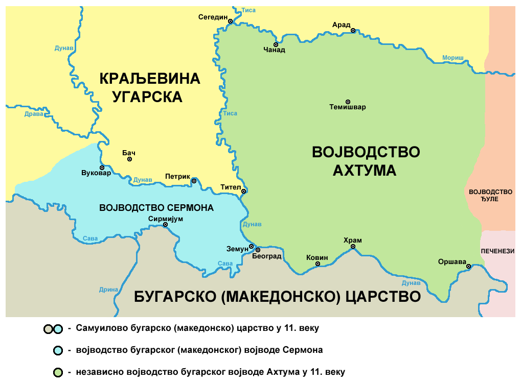 historical map - Duchies of Ahtum and Sermon in the 11th century - Serbian language version.